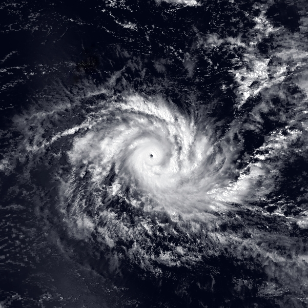 Image of Intense Tropical Cyclone Bento of the 2004-05 South-West Indian Ocean cyclone season on 23 November 2004